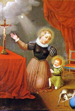 Blessed Juana de Aza with her child Dominic of Guzmán, anonymous painting